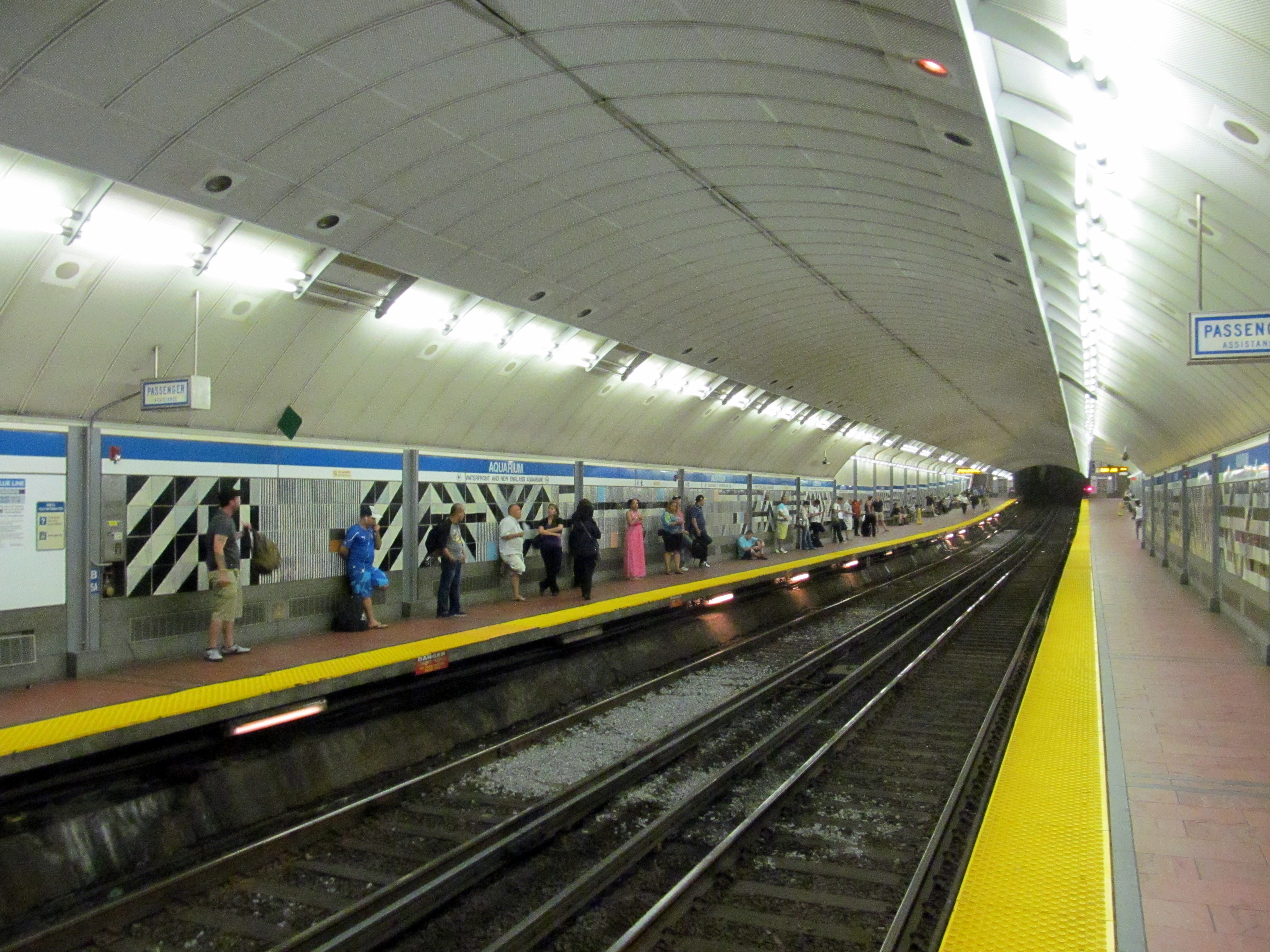 Facing inbound from the inbound platform of Aquarium station on the MBTA Blue Line